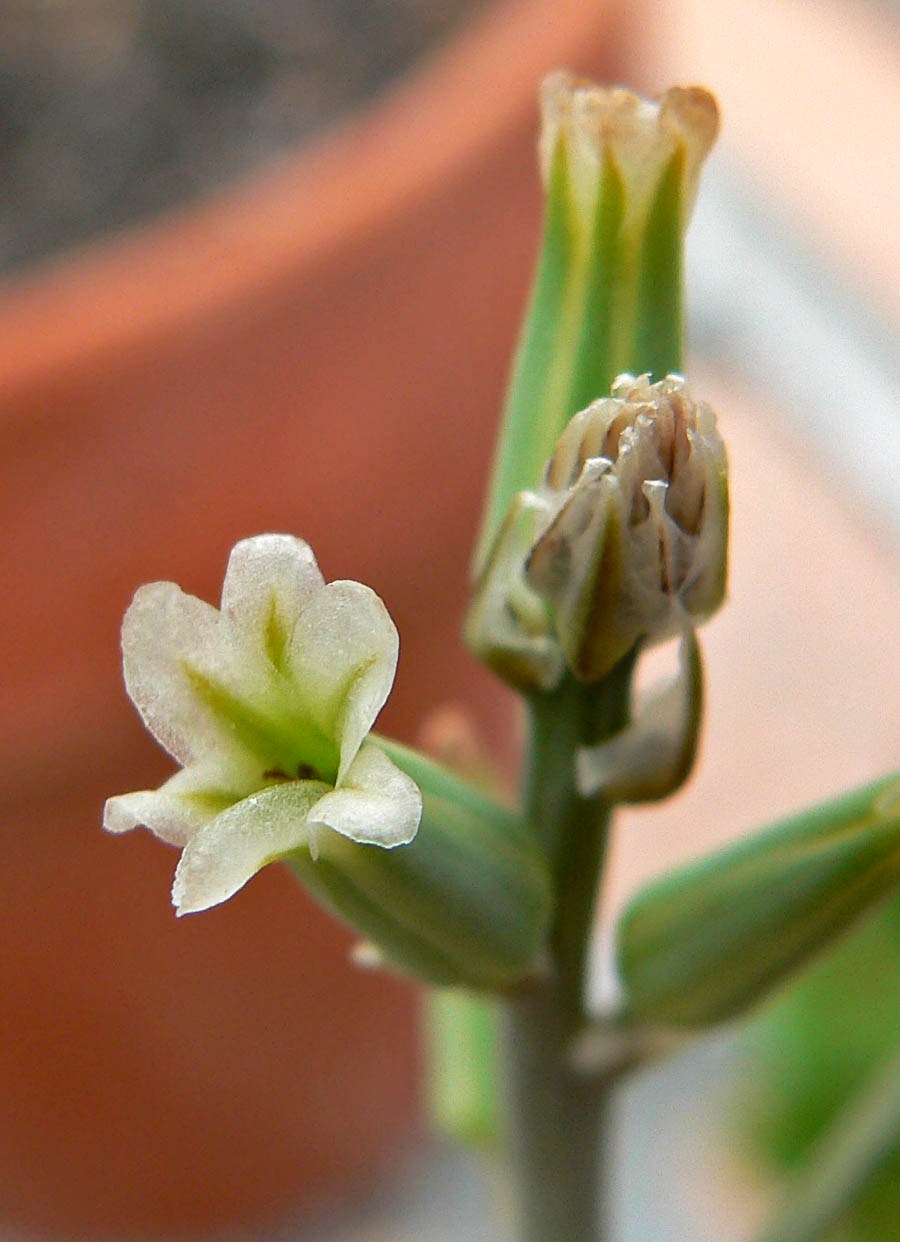 Photo of x Astrolista bicarinata at the University of California Botanical Garden